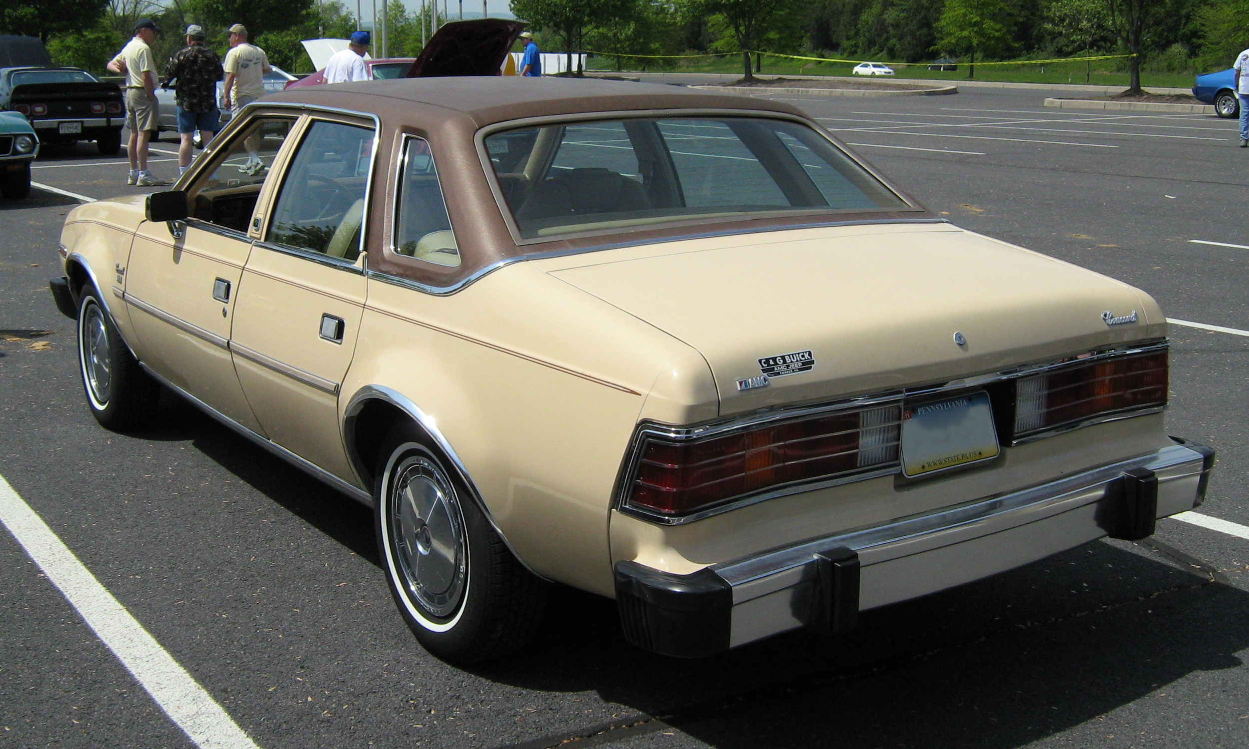 1981 AMC Concord four-door sedan - finished in Cameo Tan (paint code: 0K) with standard vinyl roof cover. Picture taken at the "2010 AMC Invasion of Gettysburg" (Pennsylvania).